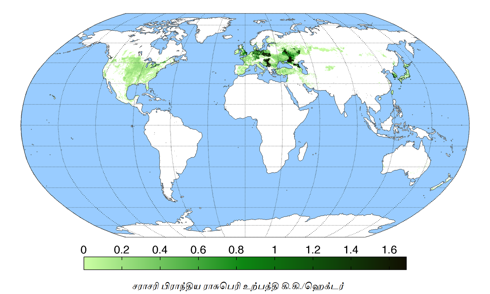 சராசரி பிராந்திய ராசுபெரி உற்பத்தி